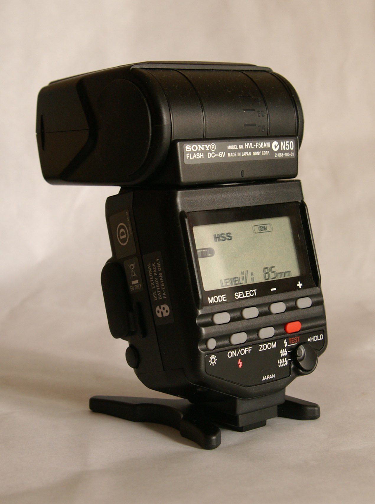 SONY HVL-F56AM flash